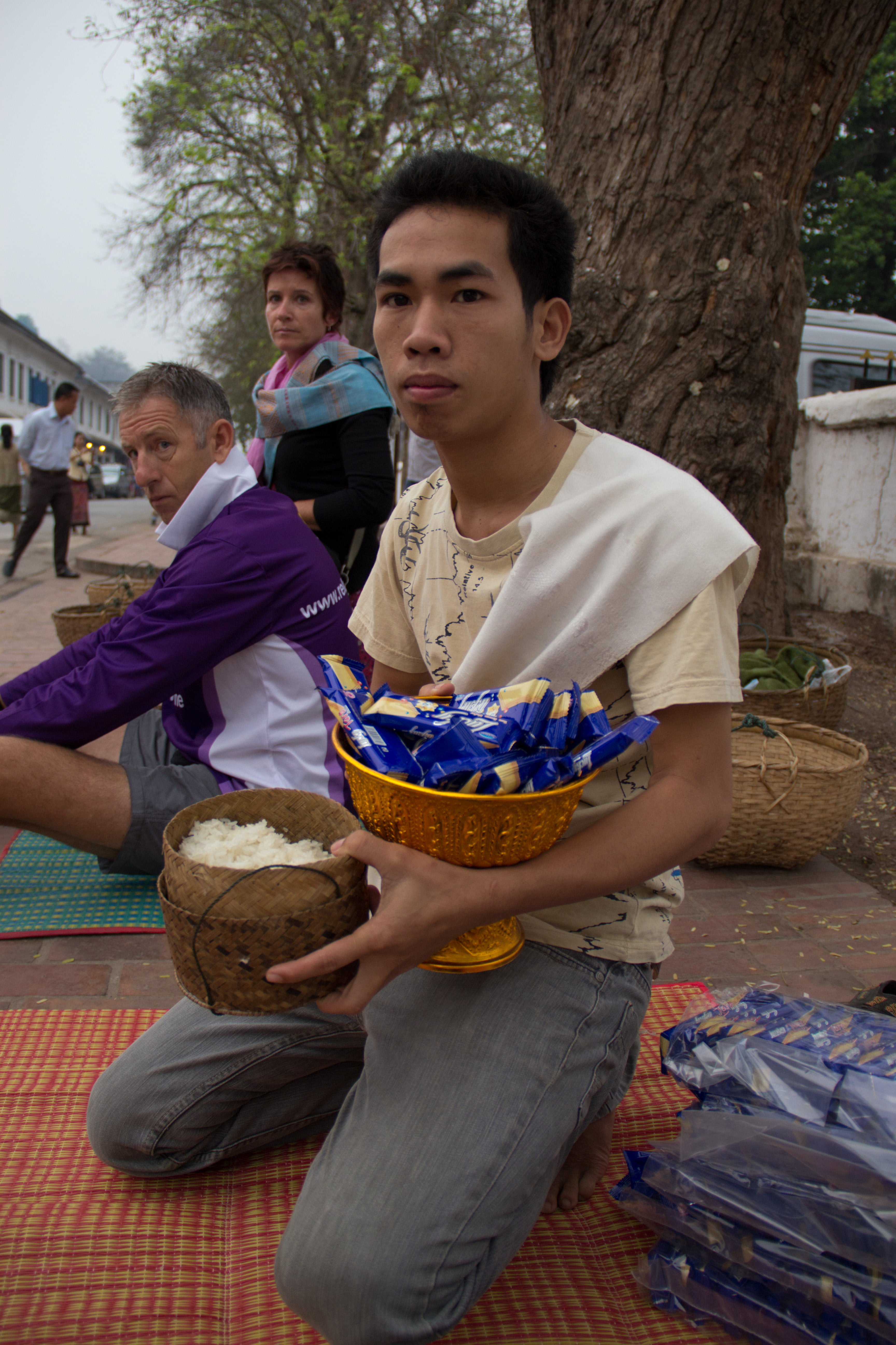 Tak bat - alms giving with Sivone.